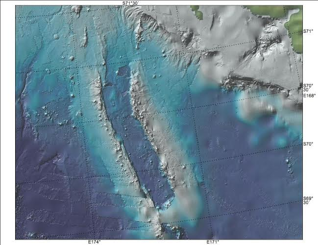 Arial view